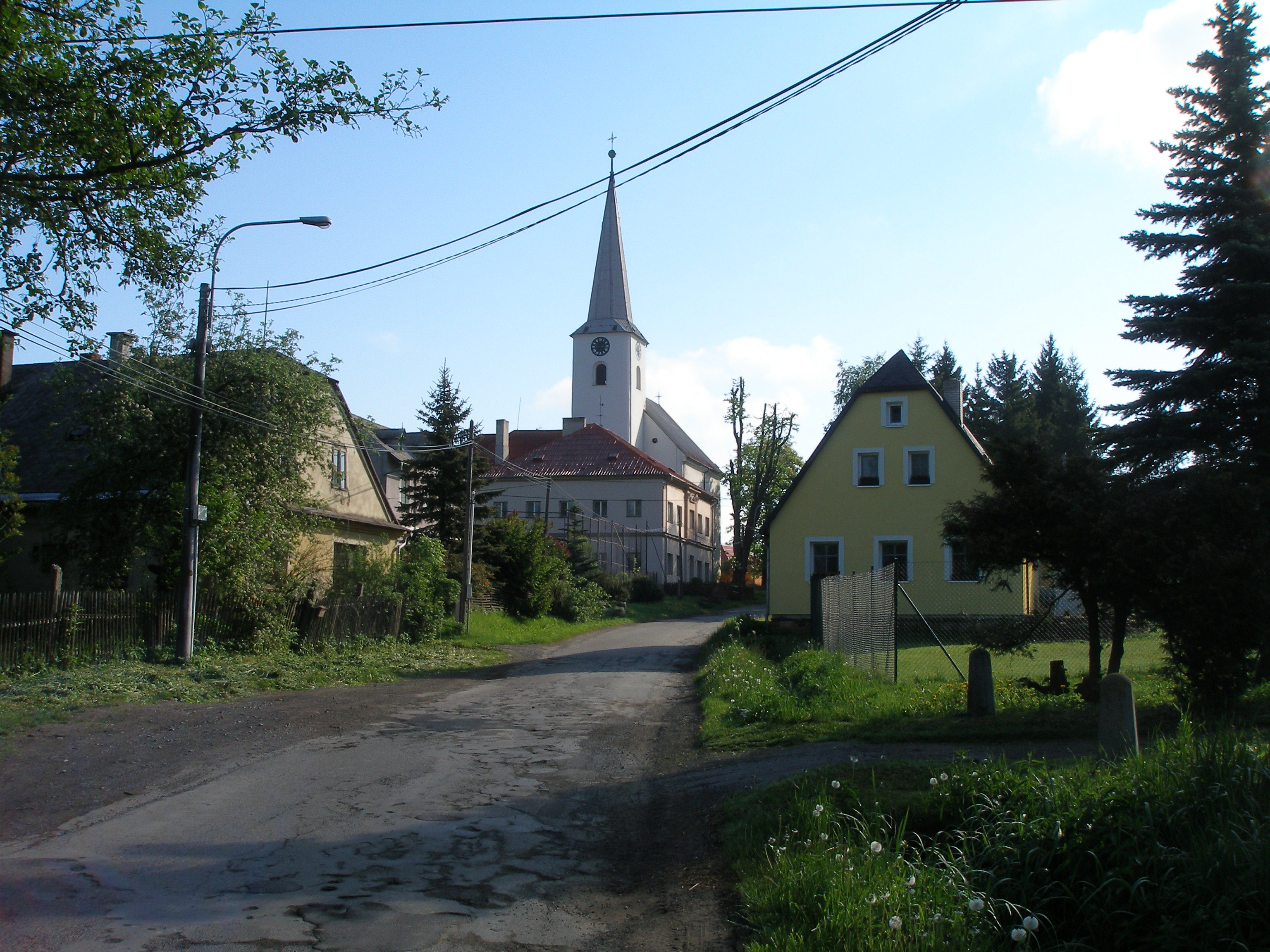 SS Peter and Paul church in Hraničné Petrovice, Olomouc District, Czech Republic. A view from the west